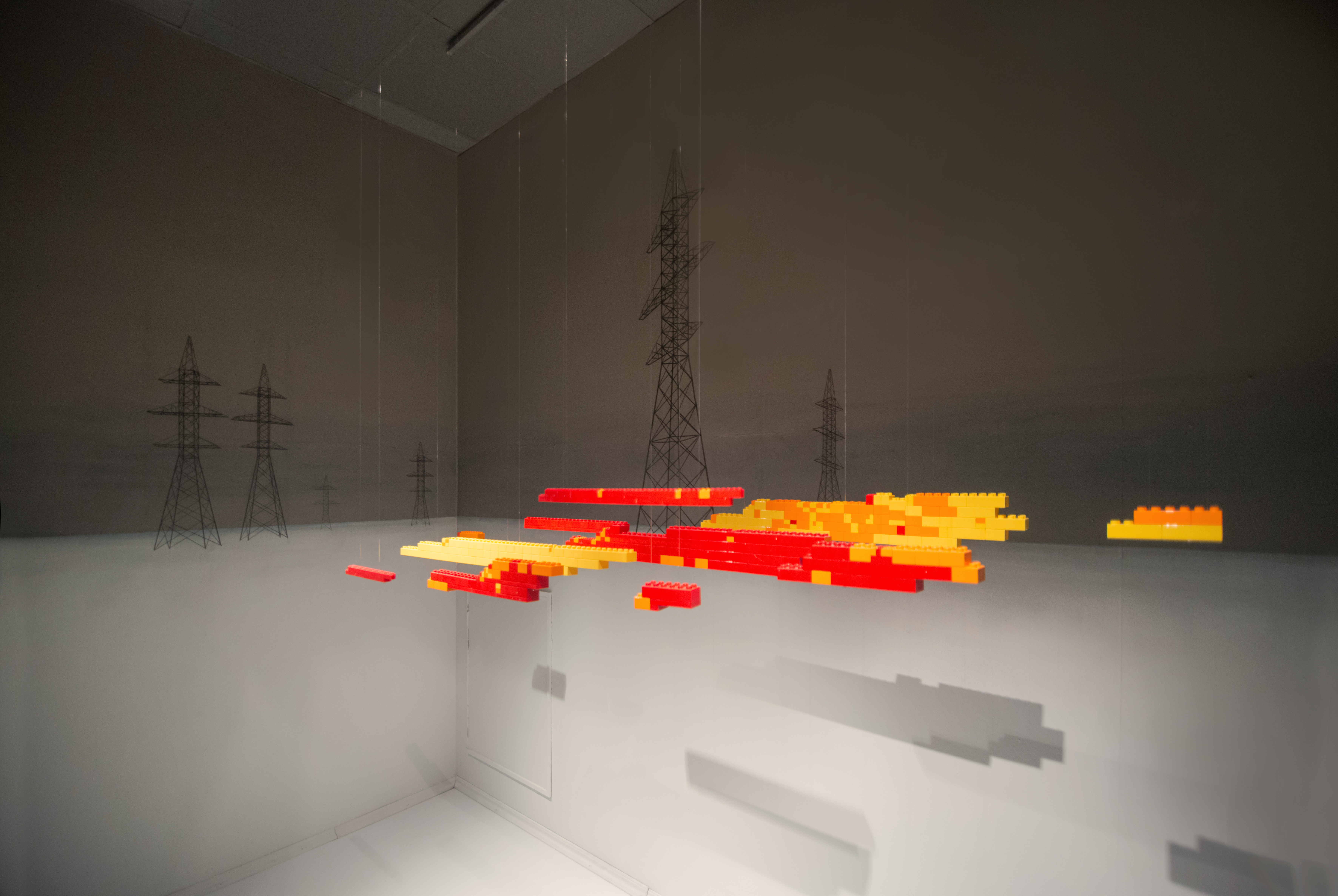 Installation at the New Wing of Gogol museum, Moscow